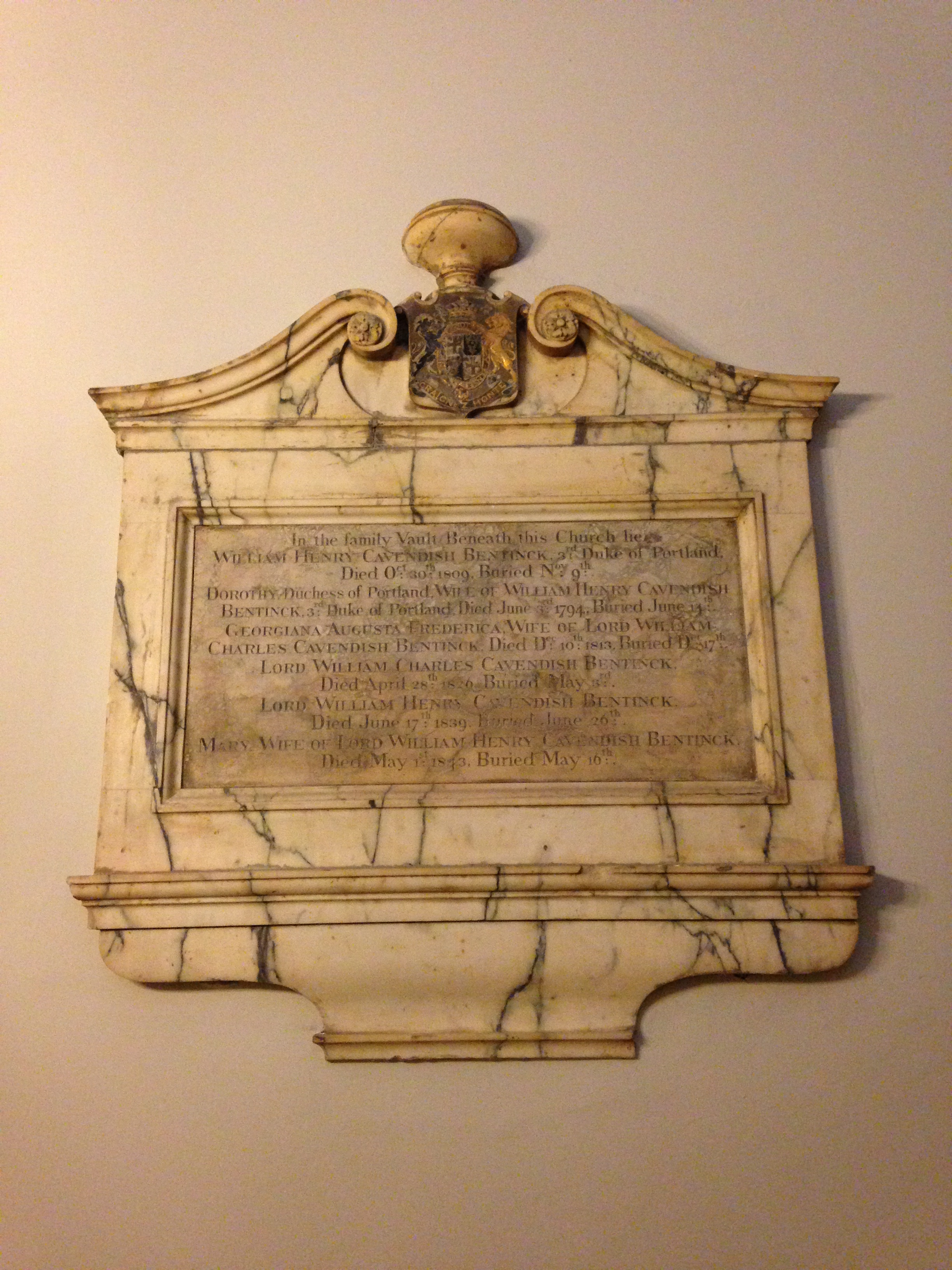 Memorial plaque to the 3rd Duke of Portland.